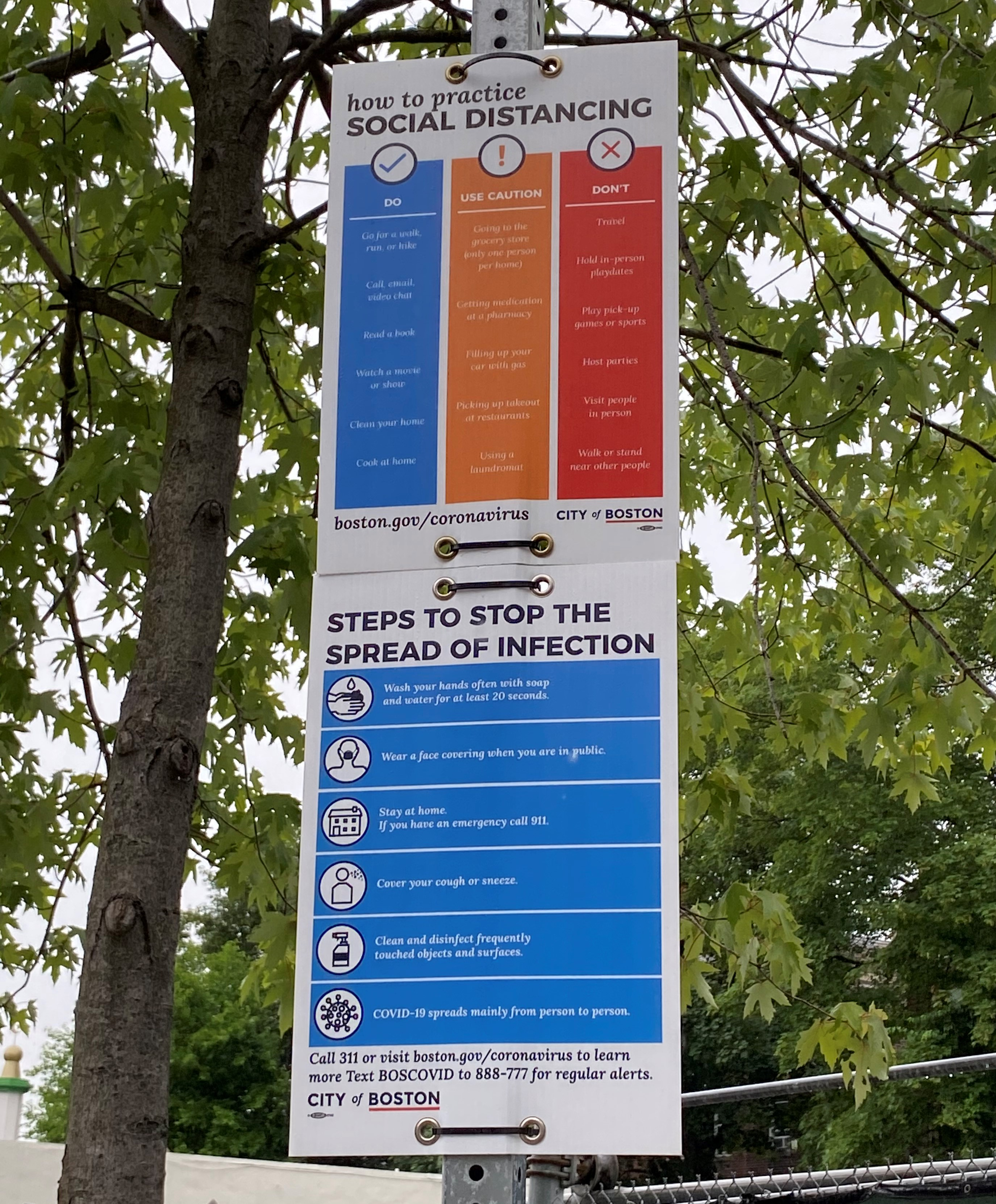 One of 1,500+ signs in Boston reminding residents to practice social distancing in the city.